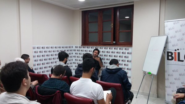 A lecture in Bilgi Kultur